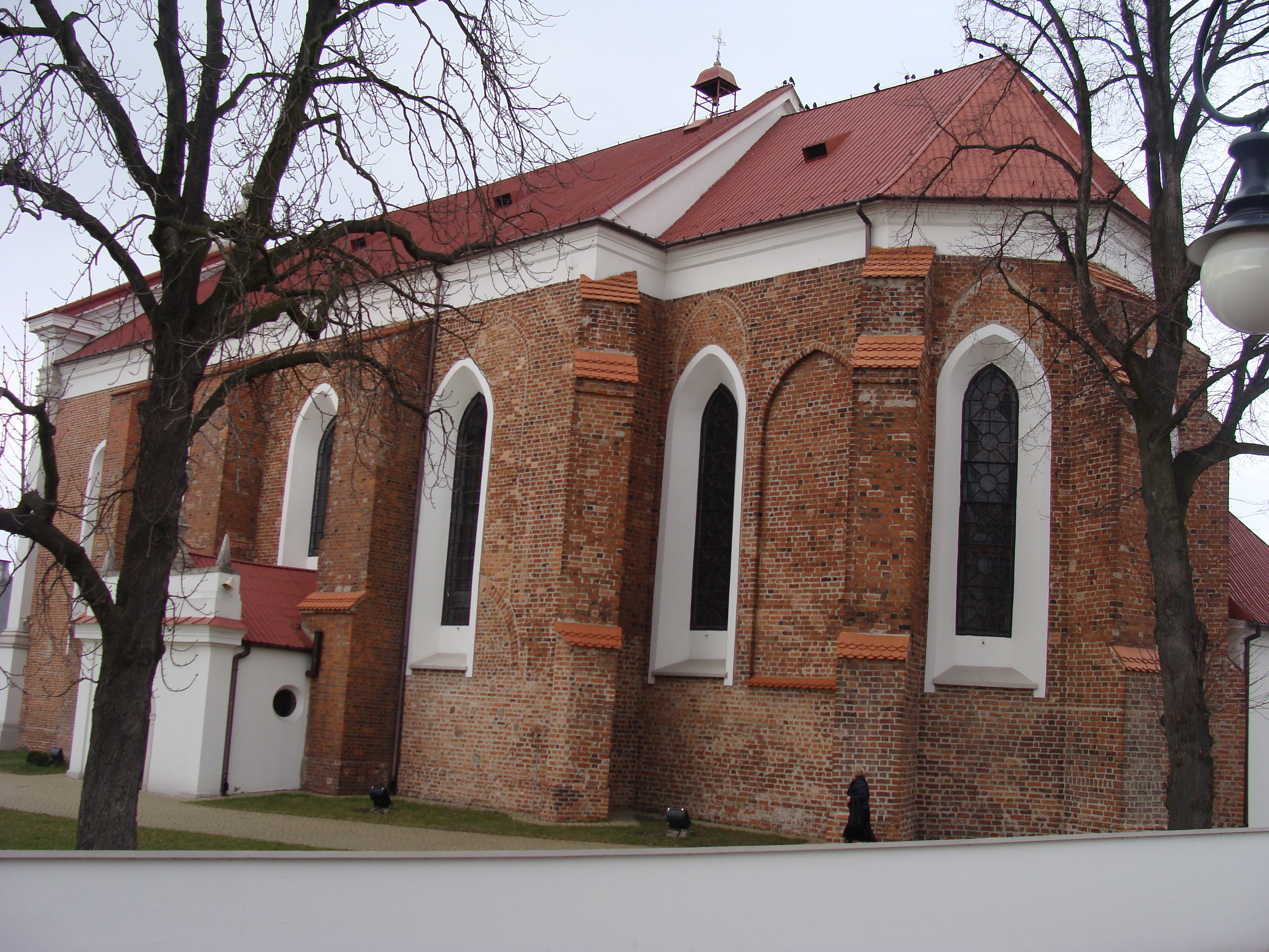 Saint Nicholas church in Tarczyn